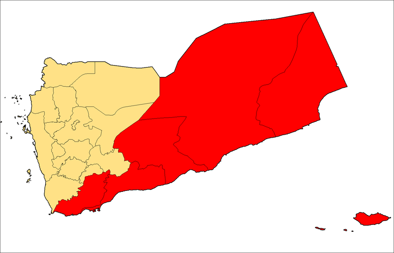 Governorates which previously formed the People's Democratic Republic of Yemen in Red